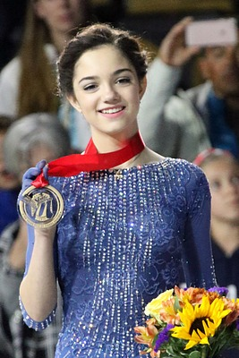 Evgenia Medvedeva at the 2015 Skate America.